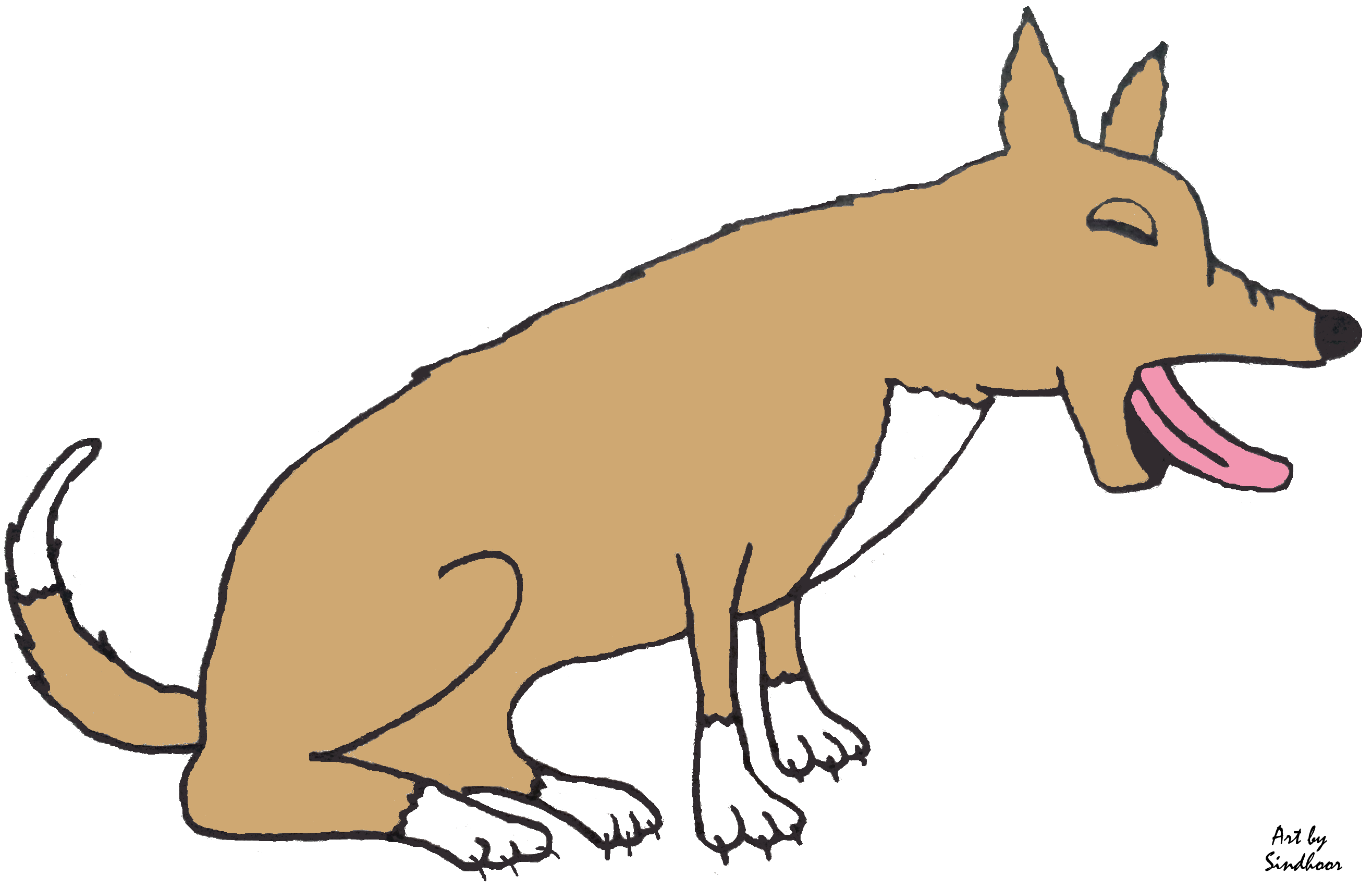 Yawning is a calming signal